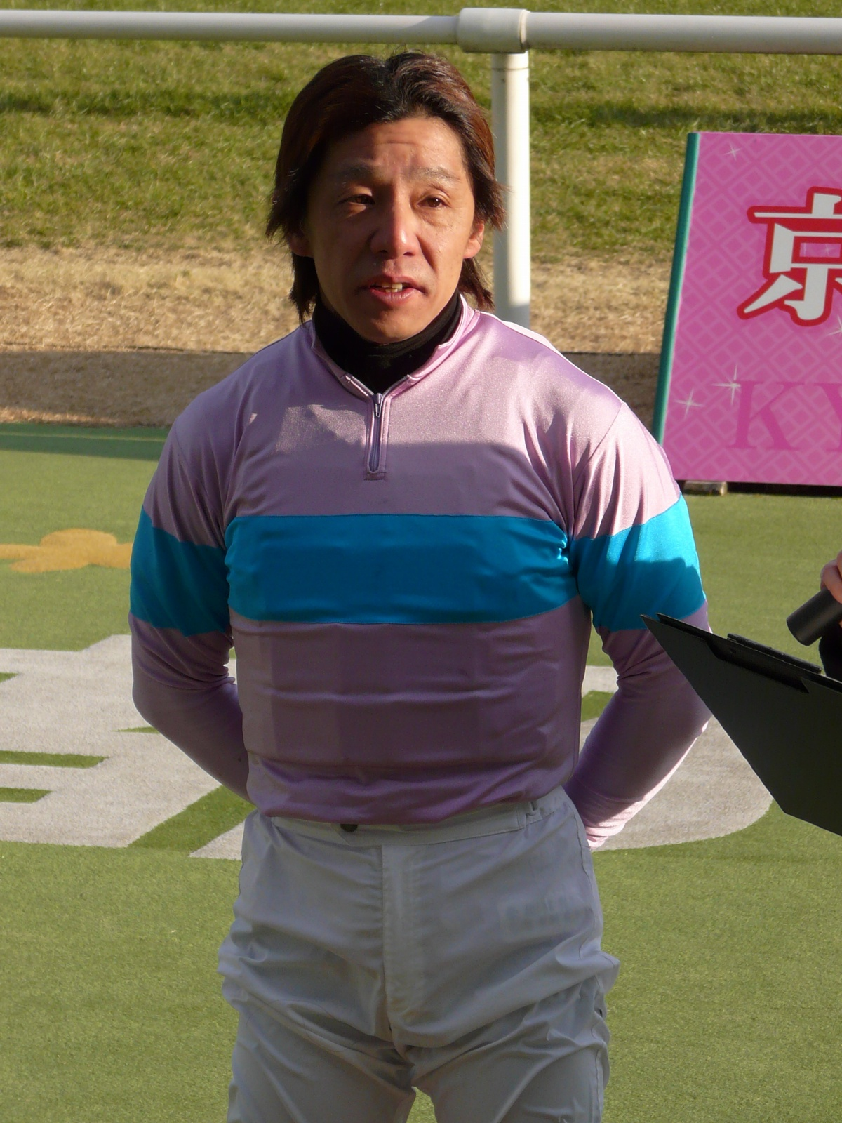 Shigefumi-Kumazawa20100123